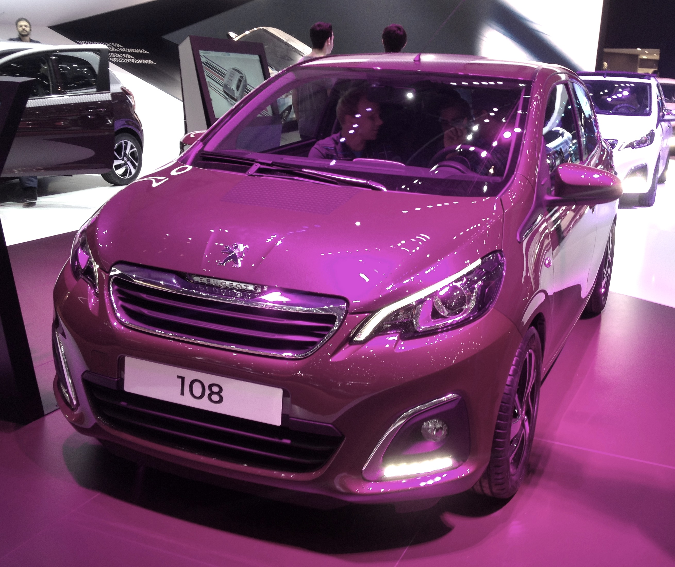 Peugeot 108 at Geneva Motor Show 2014